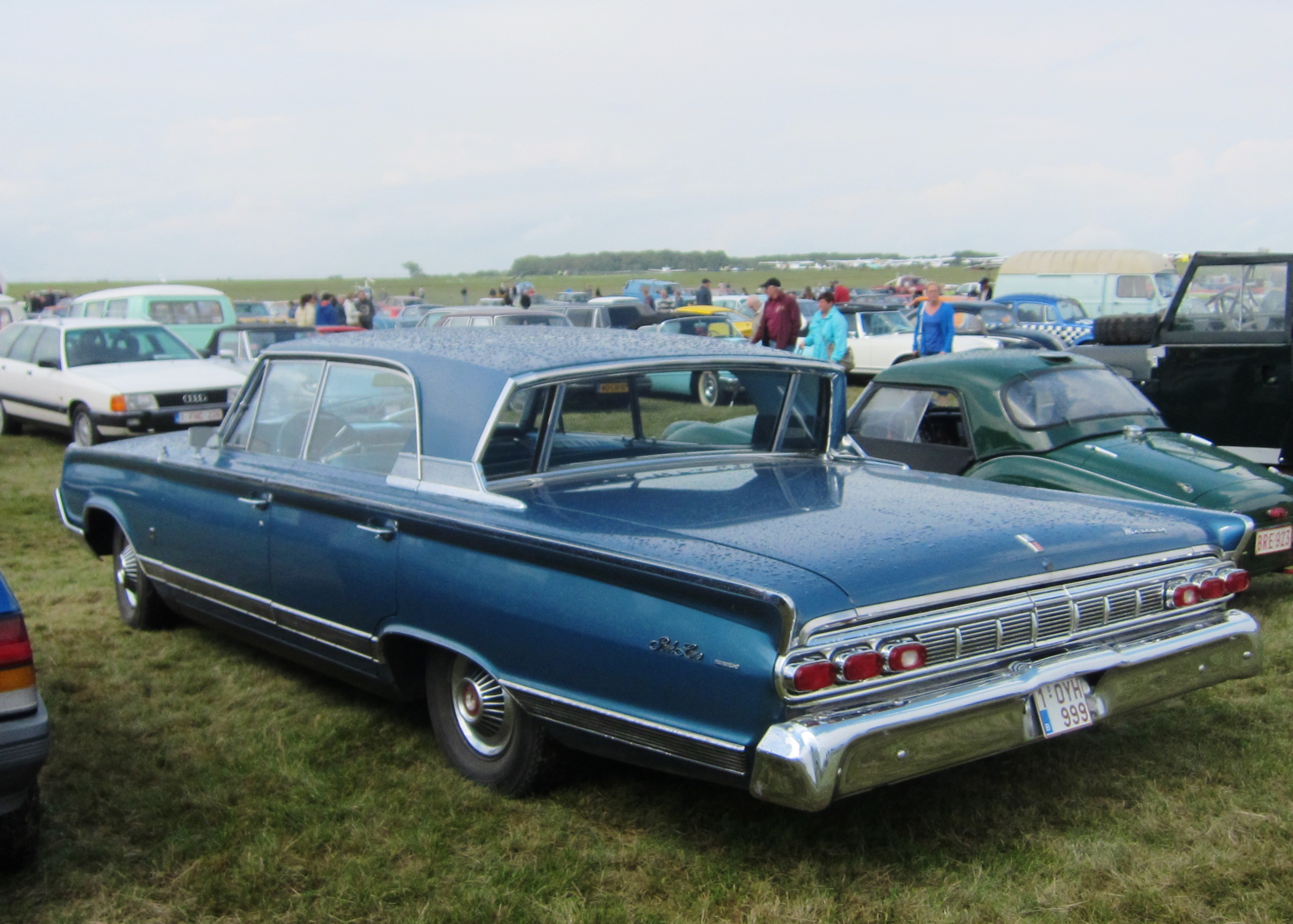 Mercury Park Lane (ca 1964) rear three quarters